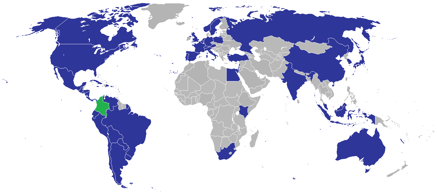 Map of diplomatic missions of Colombia